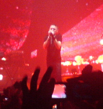 Jocke Berg during a concert with the rock group Kent in Halmstad.